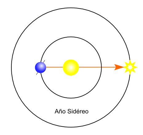 Sidereal year